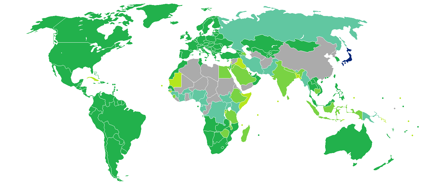 Visa requirements for Japanese citizens Japan Visa free access Visa on arrival eVisa Visa available both on arrival or online Visa required